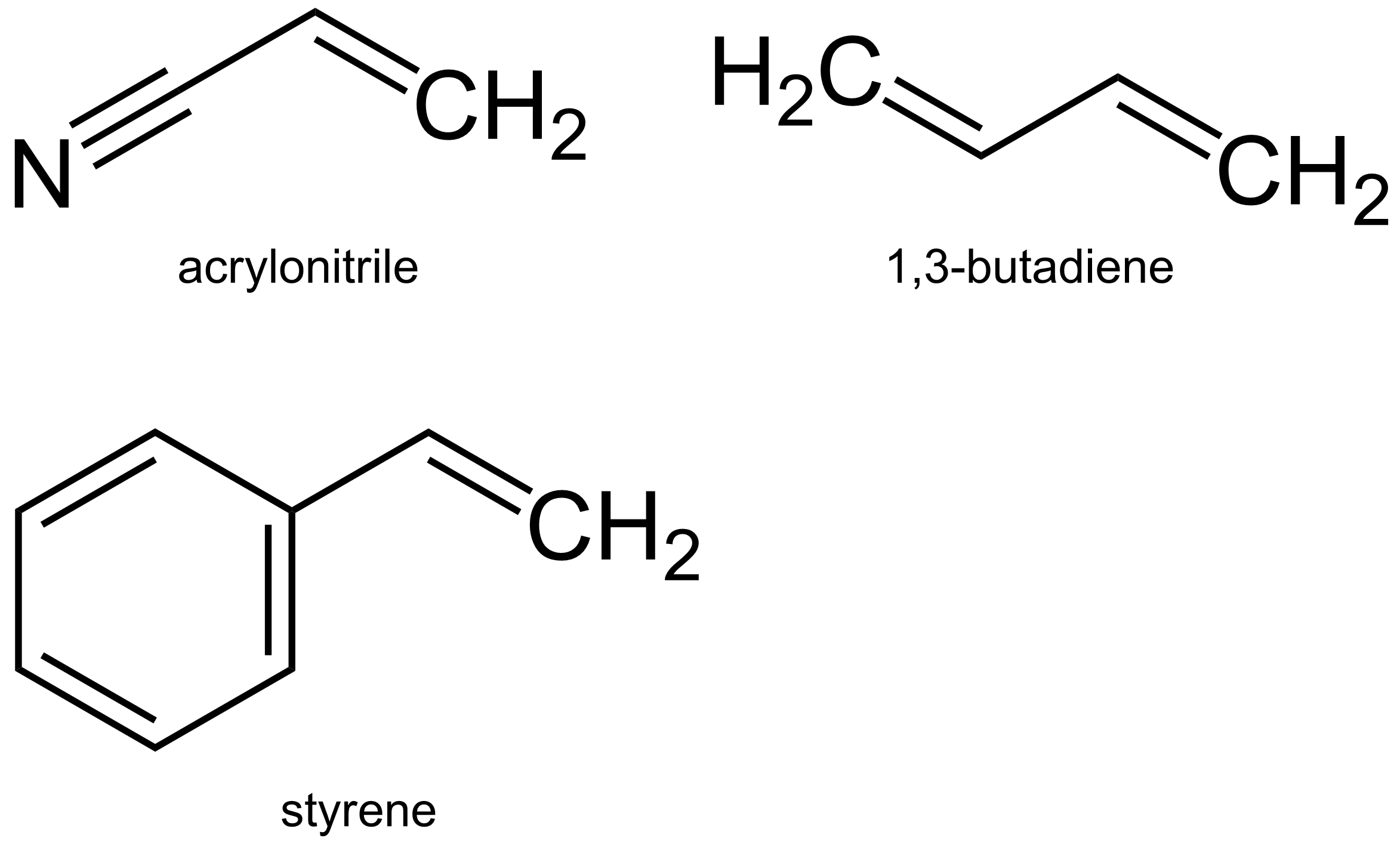 Monomers in ABS polymer